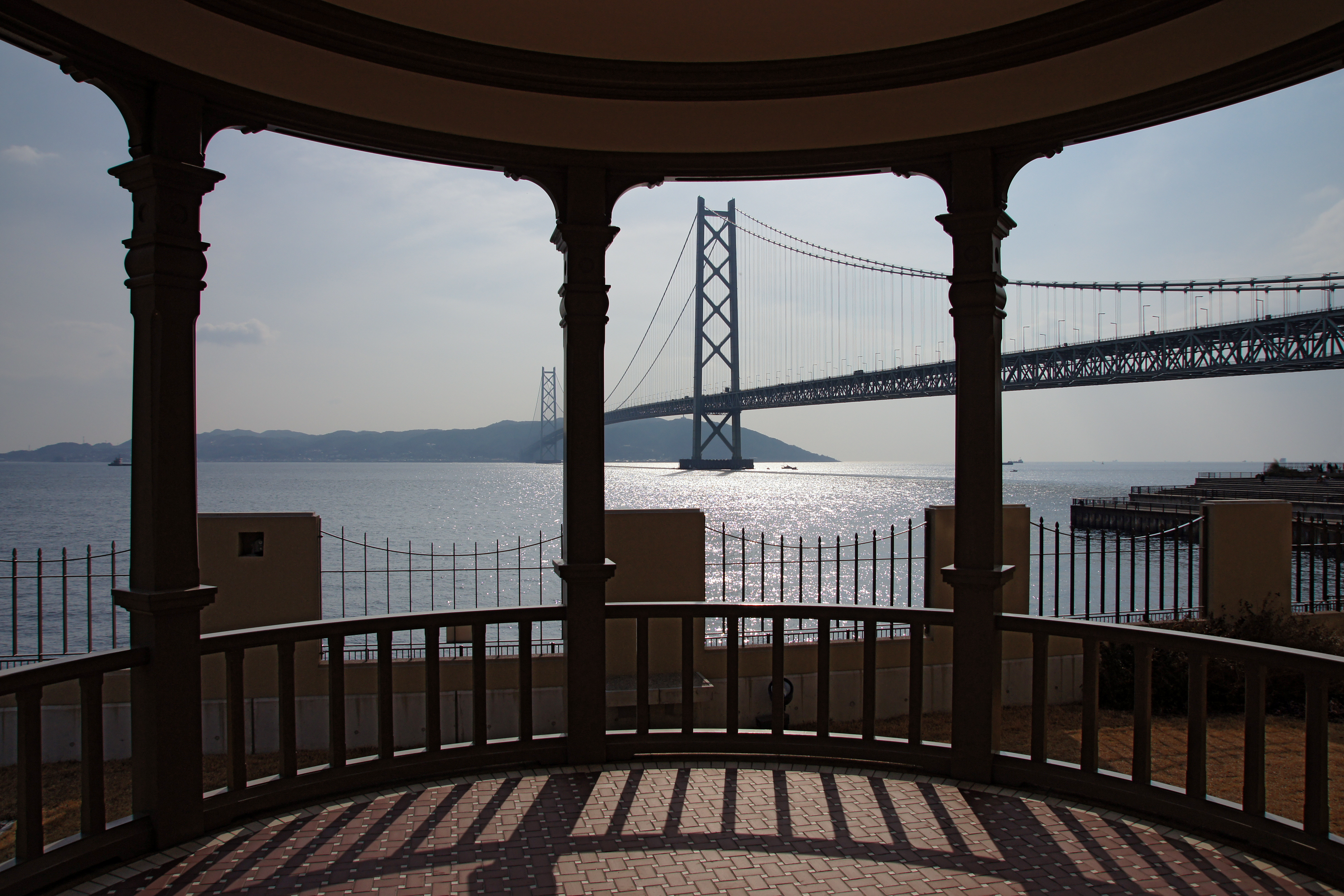 Former Muto Villa in Kobe, Hyogo prefecture, Japan